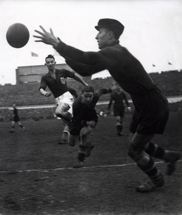 Nationaal Archief / Spaarnestad Photo, SFA022000140 Voetballer Bep Bakhuys in de aanval, tijdens Nederland - België. 1935. Keeper Arnold Badjou Dutch soccer player Bep Bakhuys on the offensive during the Netherlands-Belgium. 1935. Collectie Spaarnestad Voor meer informatie en voor meer foto’s uit de collectie van Spaarnestad Photo, bezoek onze Beeldbank: U kunt ons helpen onze kennis van de fotocollecties te verrijken door tags en commentaren toe te voegen. Herkent u mensen of locaties of heeft u een bijzonder verhaal te vertellen bij één van de foto’s, laat dan een reactie achter (als u ingelogd bent bij Flickr) of stuur een mailtje naar: You can help us gain more knowledge on the content of our collection by simply adding a comment with information. If you do not wish to log in, you can write an e-mail to